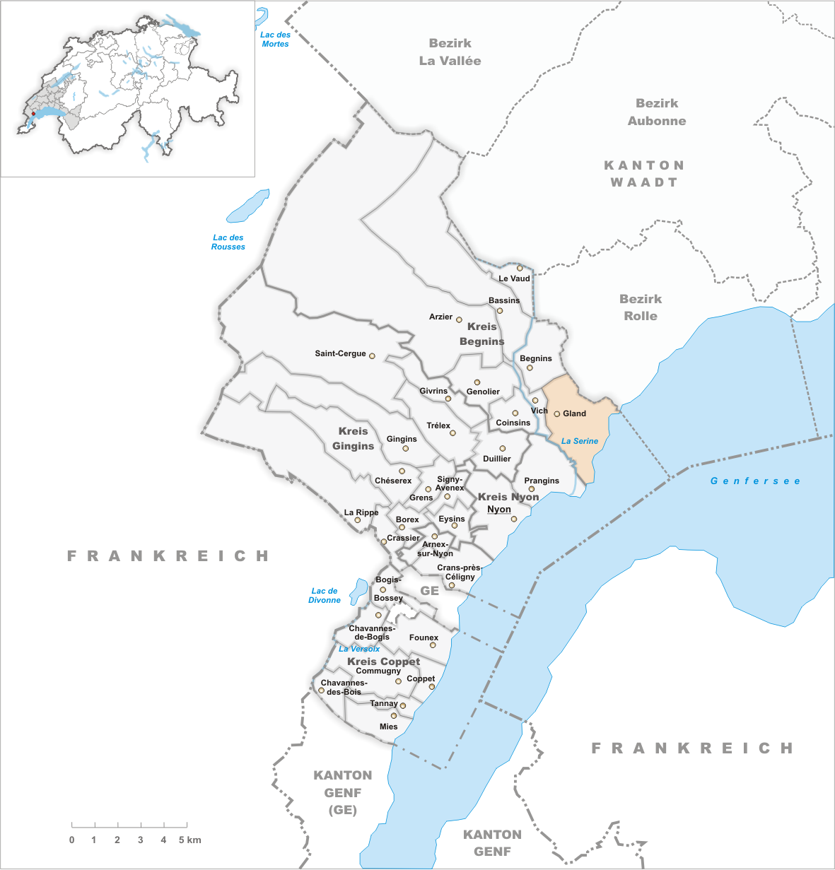 Municipality Gland